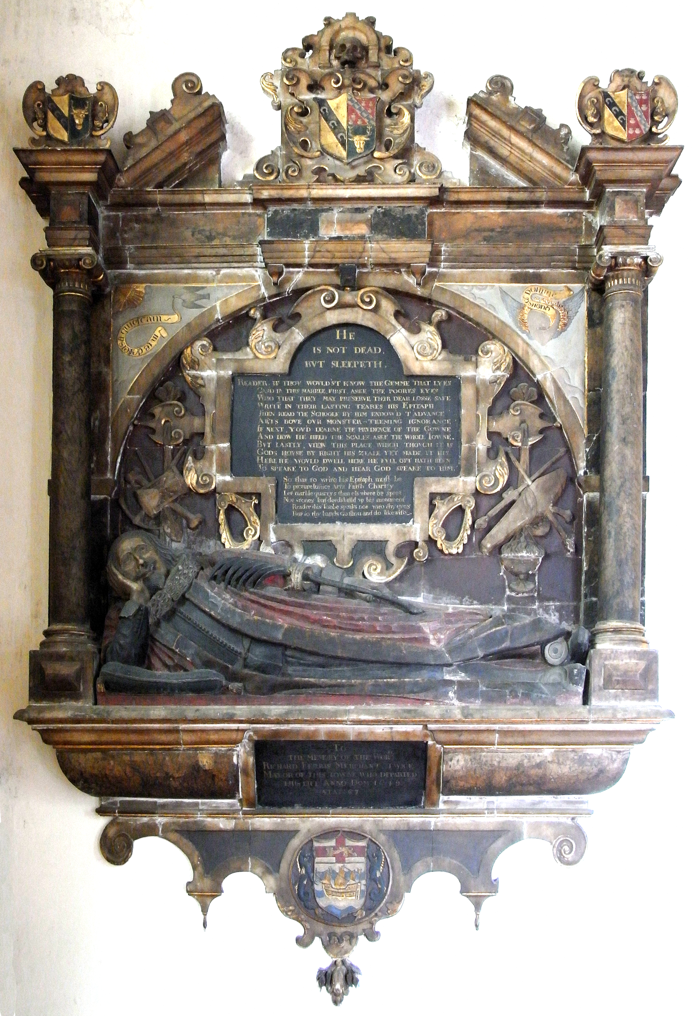 Mural monument in St Peter's Church, Barnstaple, Devon, of Richard Ferris (1582–1649), a wealthy merchant from Barnstaple who served as a Member of Parliament for Barnstaple in 1640 and served twice as Mayor of Barnstaple in 1632 and 1646. He was a member of the Spanish Company and founded the Barnstaple Grammar School, otherwise known as the "Blue School". With arms of Ferrers of Bere Ferrers, Devon, of Beaple (for his first wife) and of the Spanish Company (at base). The arms of Sable, a bull's head or for his second wife, are of unknown family.